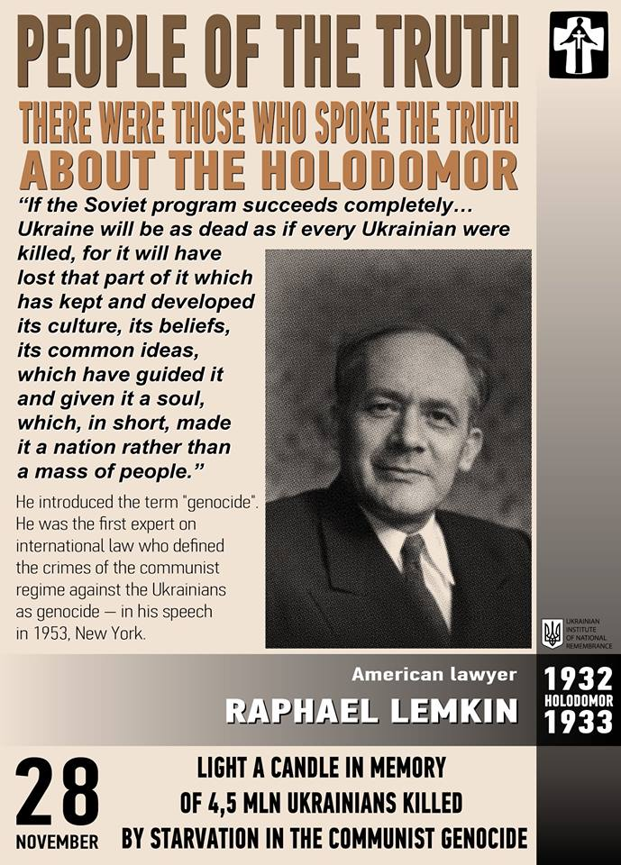 People of truth. There were those who spoke the truth about Holodomor. For the world to know.